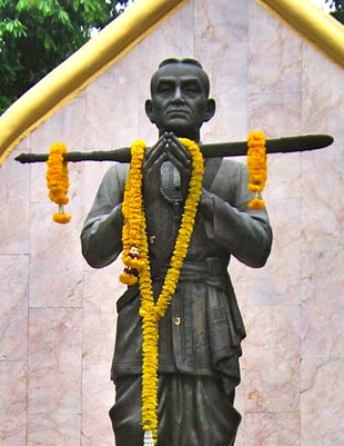 Statue of Maha Surasinghanat, vice-king of King Rama I., founder of Wat Mahathat, Bangkok, Thailand.